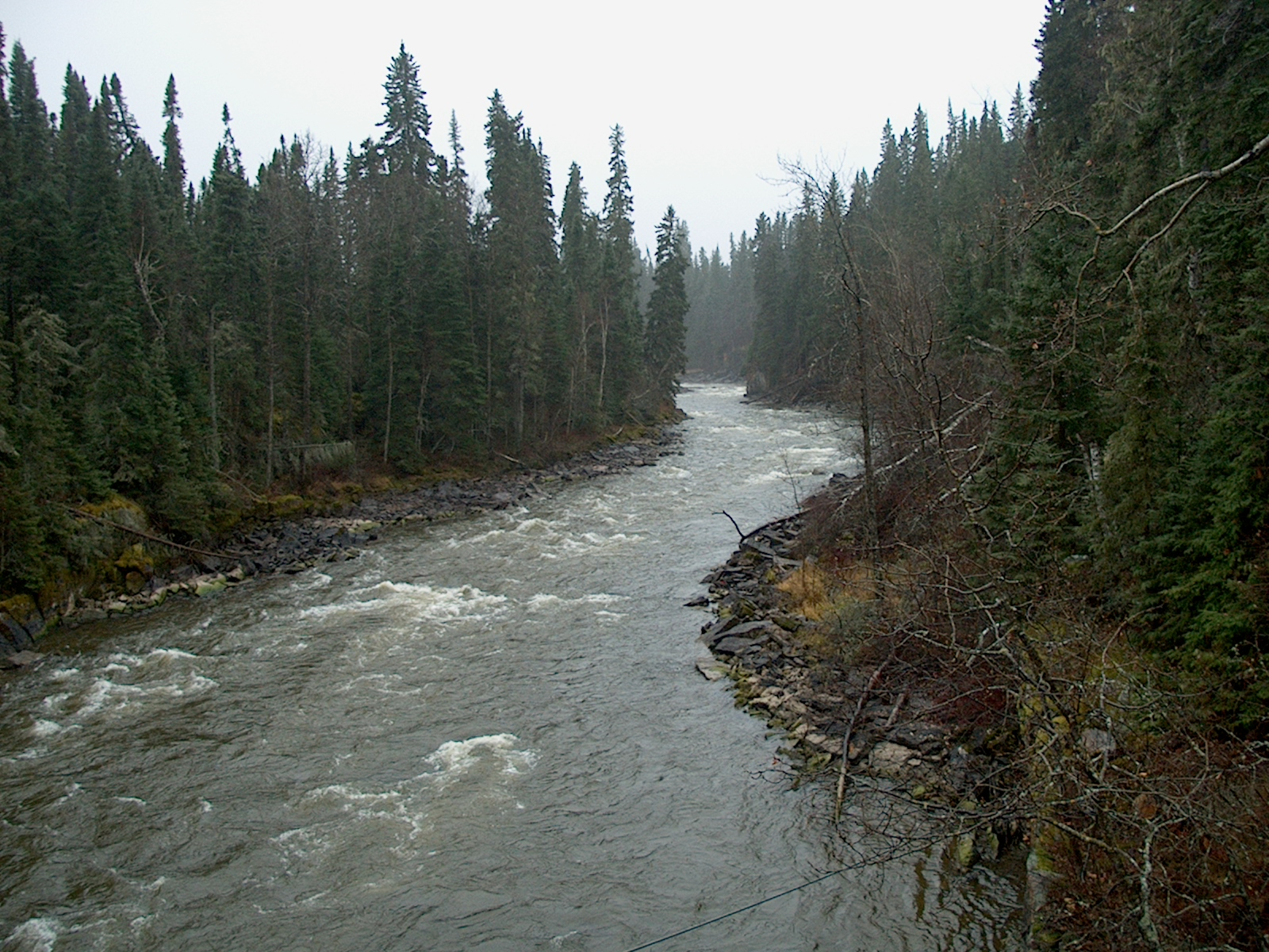 View from Rotary Bridge, downstream from Pisew Falls